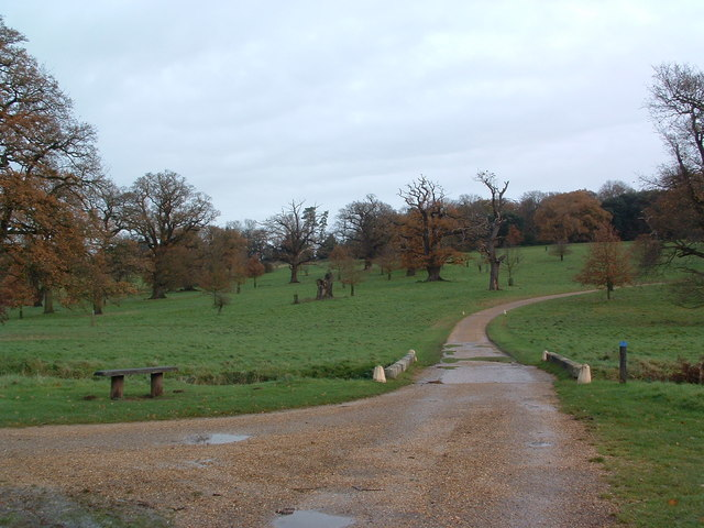 Winter Scene. Winter view of Ickworth Park compare it with the other photo taken 5 months ago 202827